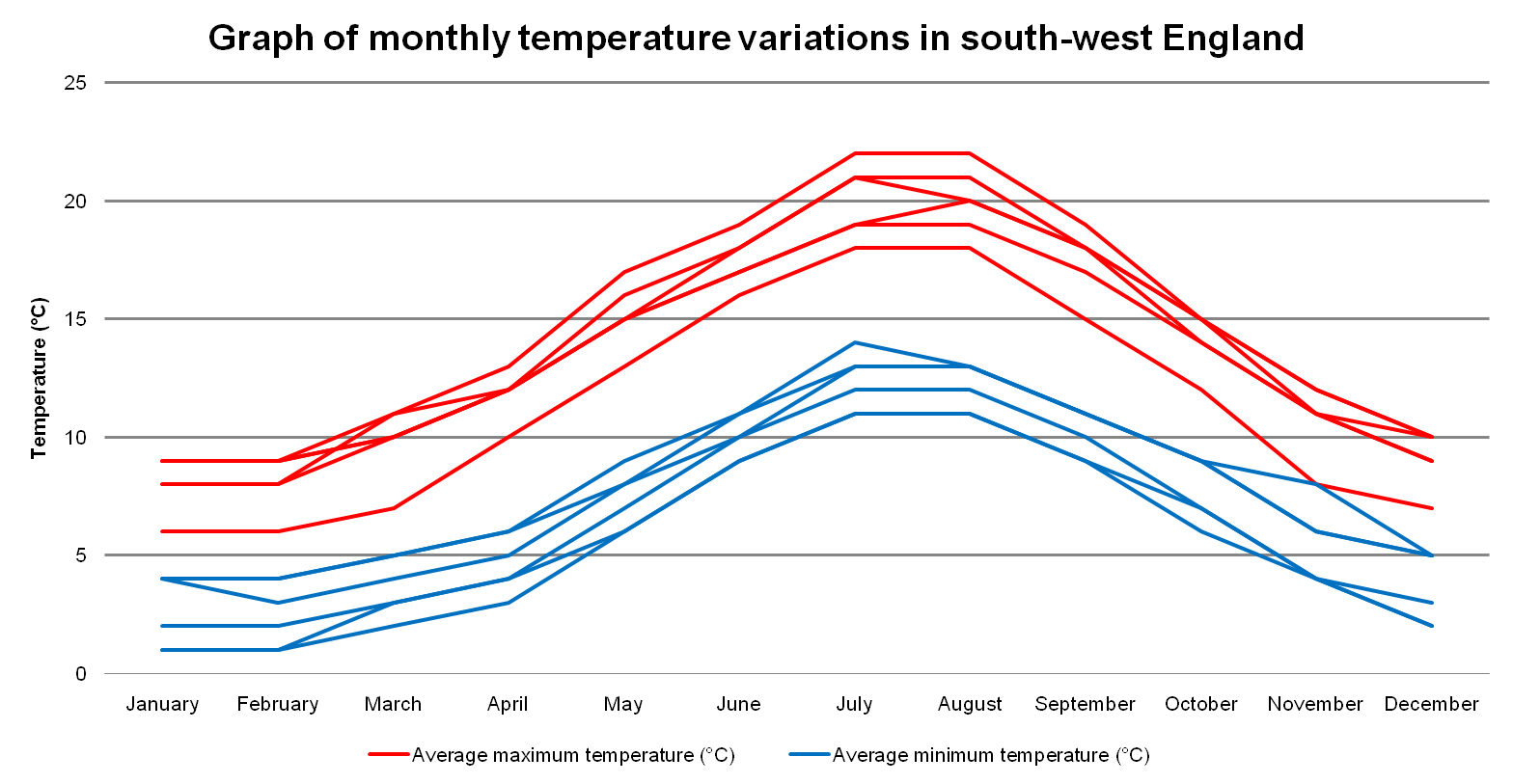 A line graph plotting the average monthly minimum and maximum temperatures recorded at eight weather stations across South West England during 1971-2001: Bude, Nettlecombe, Princetown, St. Mawgan, Teignmouth and Yeovilton.